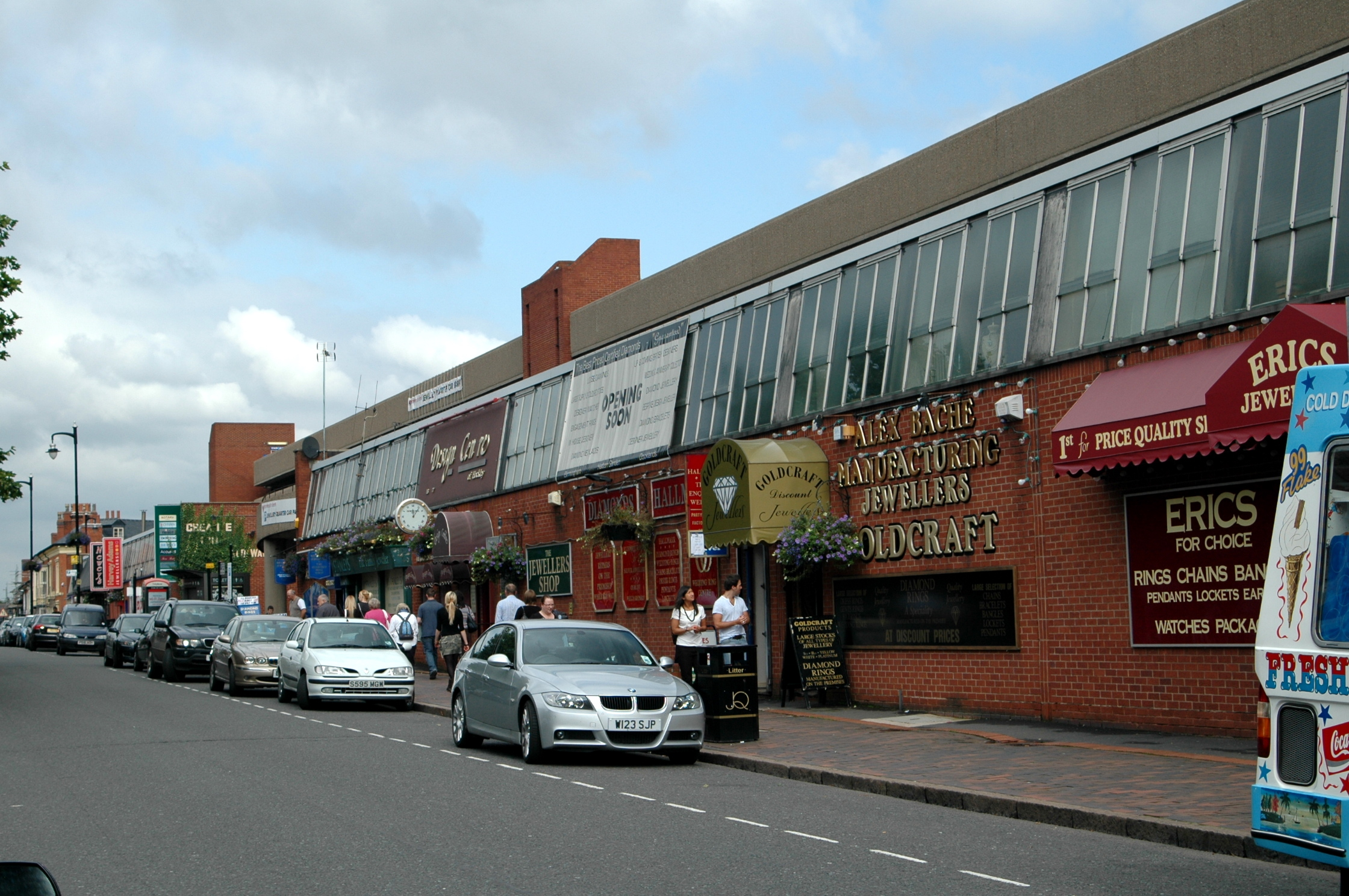 This is a view of Vyse Street showing the low rise section constructed by the city council of Birmingham in the 1960s to regenerate the area.